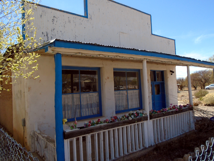 Acoma Curio Shop in San Fidel, New Mexico located on the historic Route 66. The building is now home to Gallery 66.